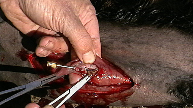 donkey with choke due to eating dry sugar beet pulps: surgery : opening of esophagus; note reflux of pulps